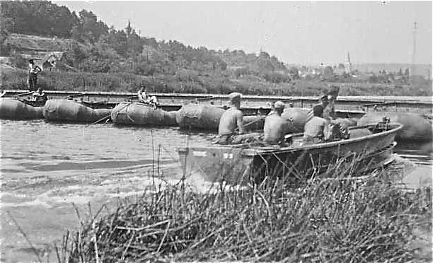 1269th Engineer Combat BN, Company A (July 1945) Building a Treadway pontoon bridge on the Neckar River, near Heidelberg, Germany